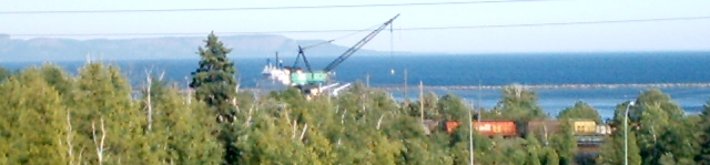 A crane at the Port Arthur Shipbuilding Company in Thunder Bay